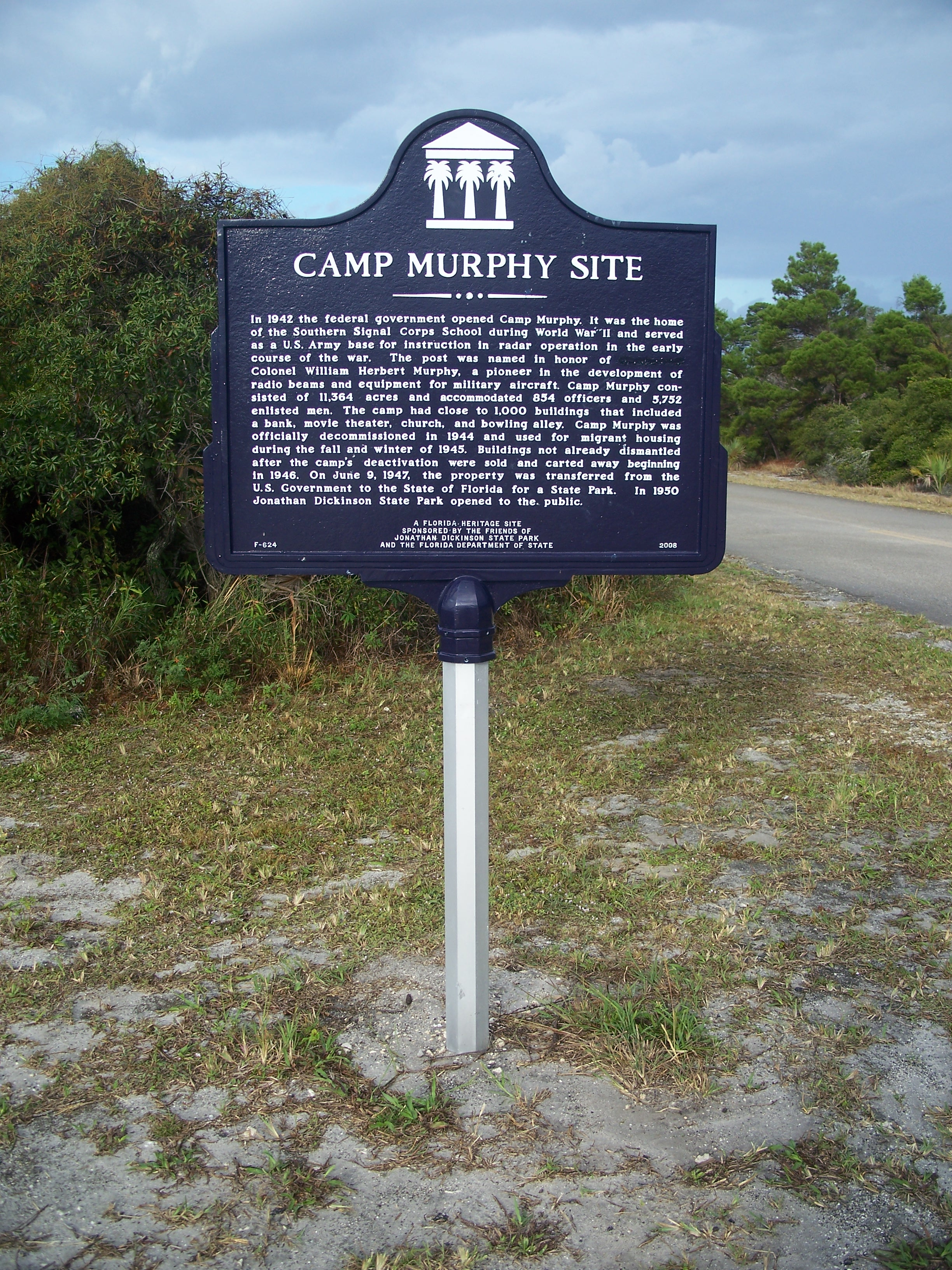 Jonathan Dickinson State Park: Historical marker about Camp Murphy